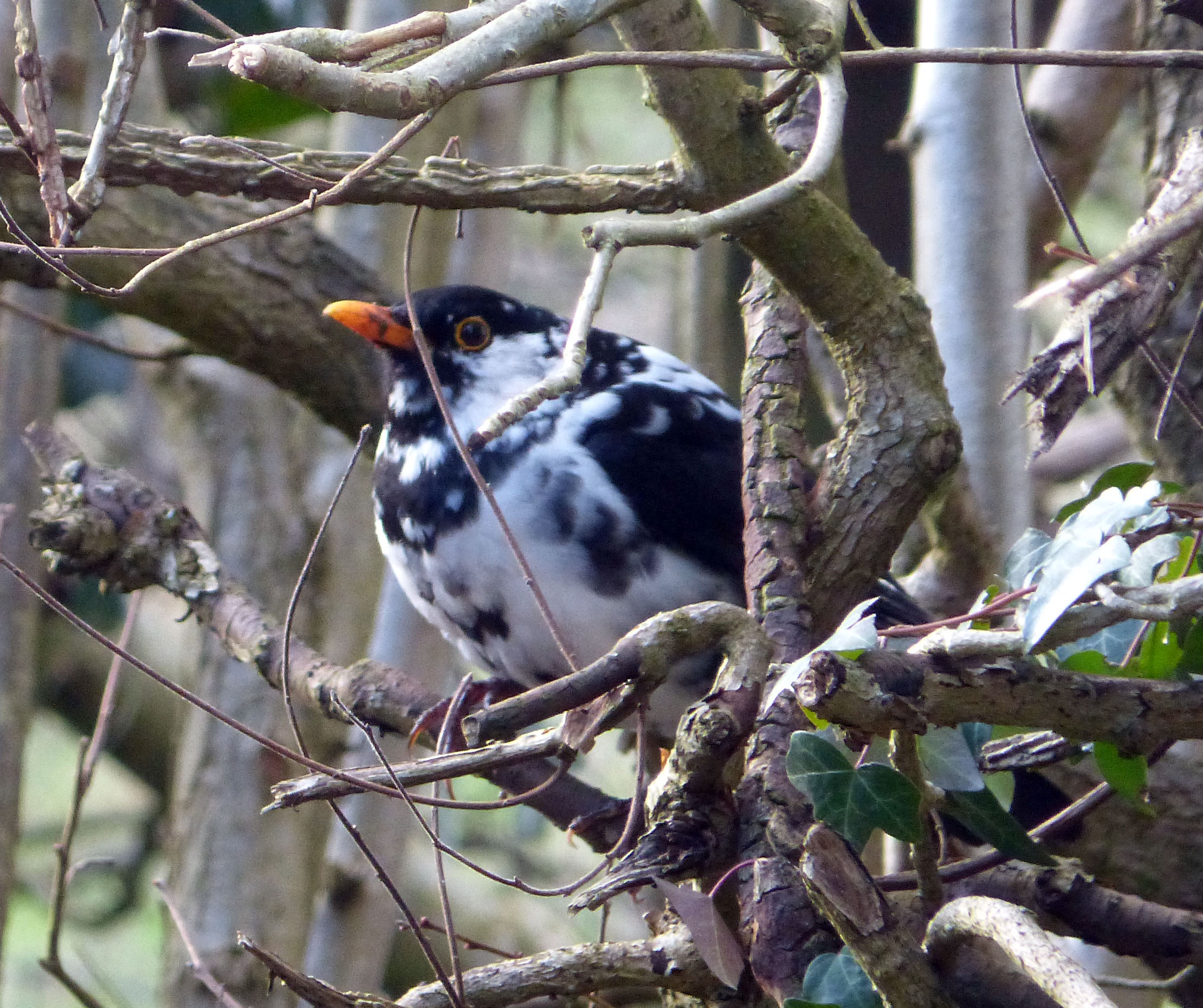 An adult male Common Blackbird in Cradley, Herefordshire, England. Its plumage has an unusual pied appearance.